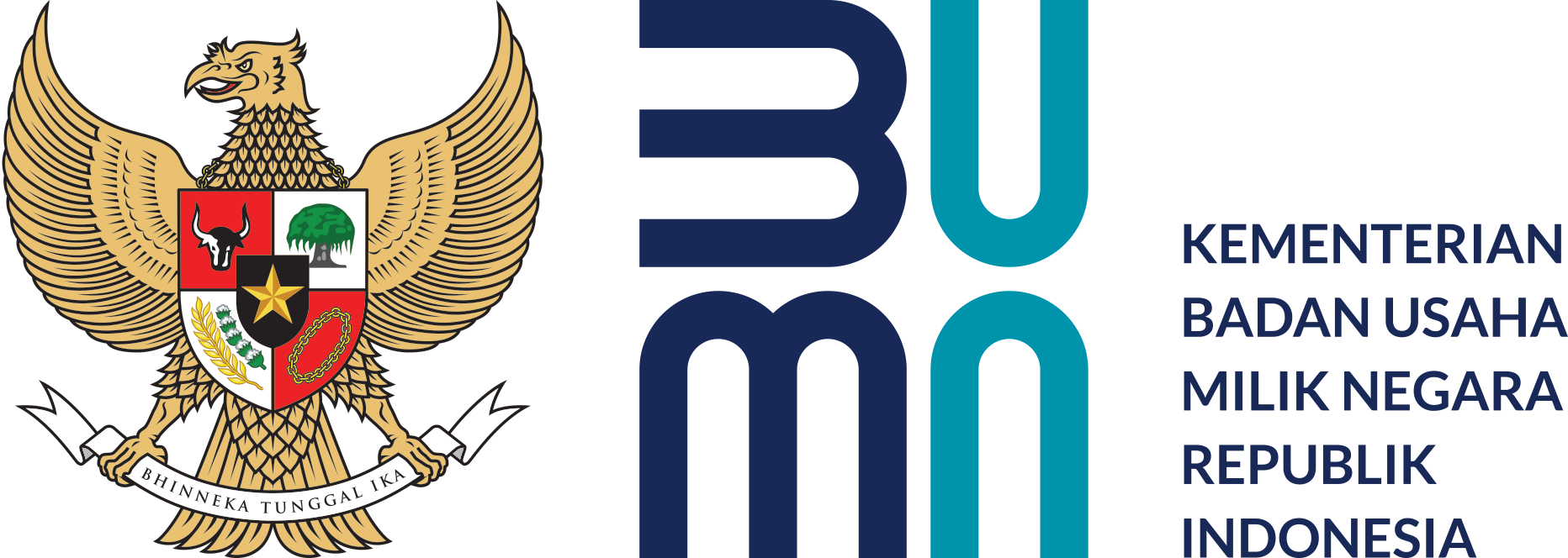 logo of the Ministry of State-Owned Enterprises of the Republic of Indonesia used from 2 July 2020